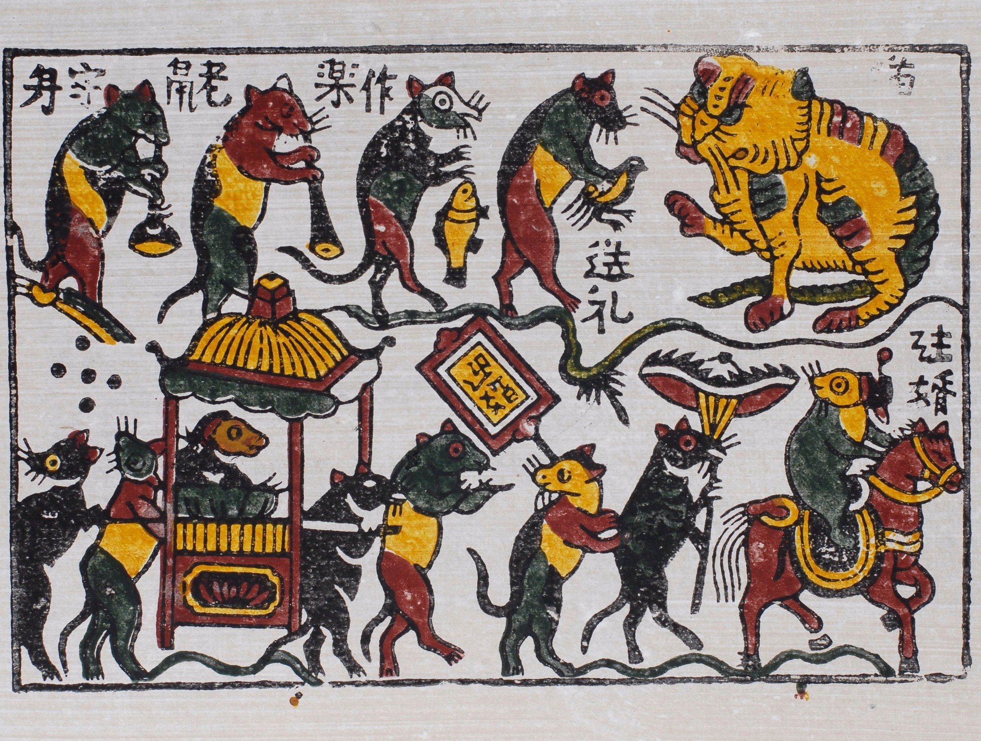 "Lao Thu Thu Tan: Old Rat Taking a Bride", a woodblock print, produced by artisans from the village of Dong Ho in North Vietnam. Such prints are tradtionally produced for new year celebrations, and have been emulated in a painting of at least one artist (Hien Pham; Note also interesting similarity to an 18th century Russian woodcut, Image:Mice-burying-the-cat.jpg